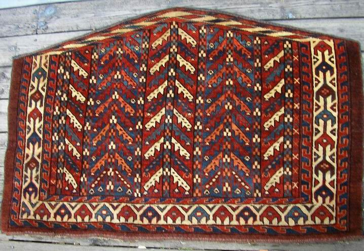 Yomut Tree Asmalyk